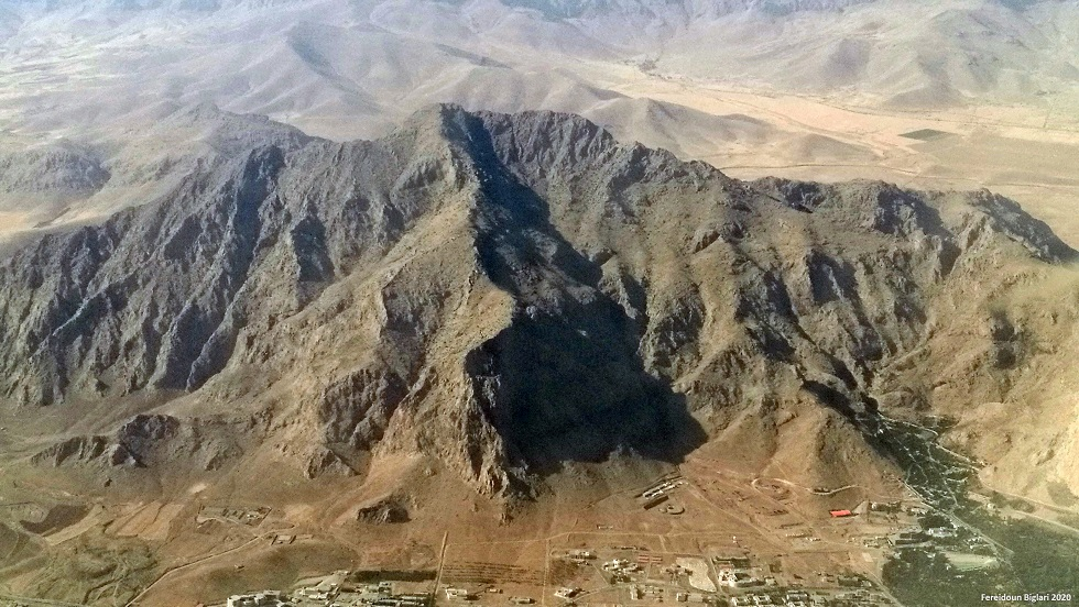 Farokhshad or Maiwaleh Mountain, north of Kermanshah, Zagros